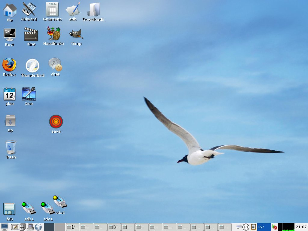 Screenshot of my desktop, FatDog64 running from RAM (I disconnected all SATA/IDE wires)